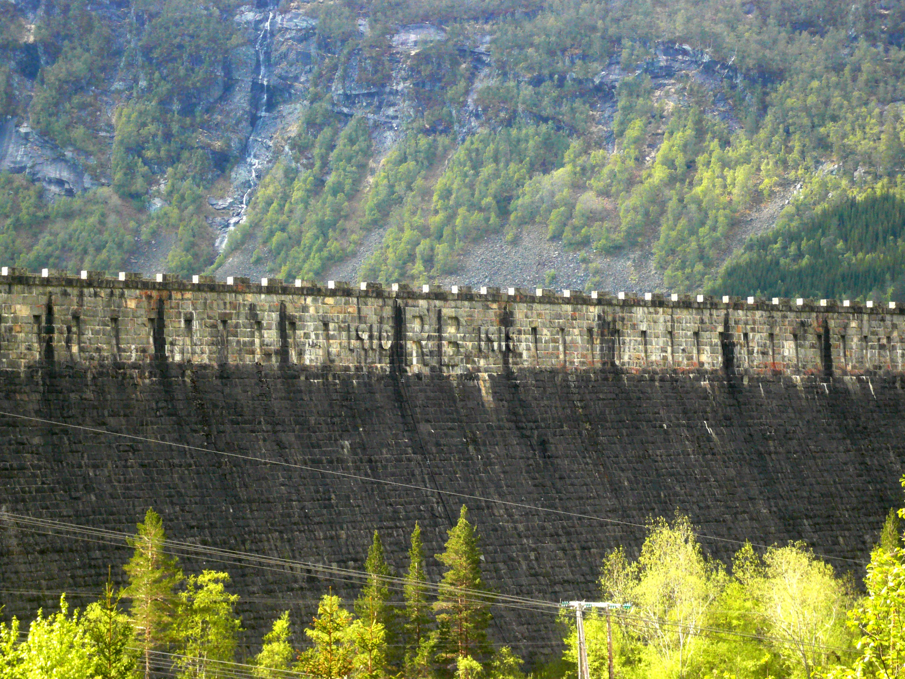 Ringedalsdammen, Tyssedal